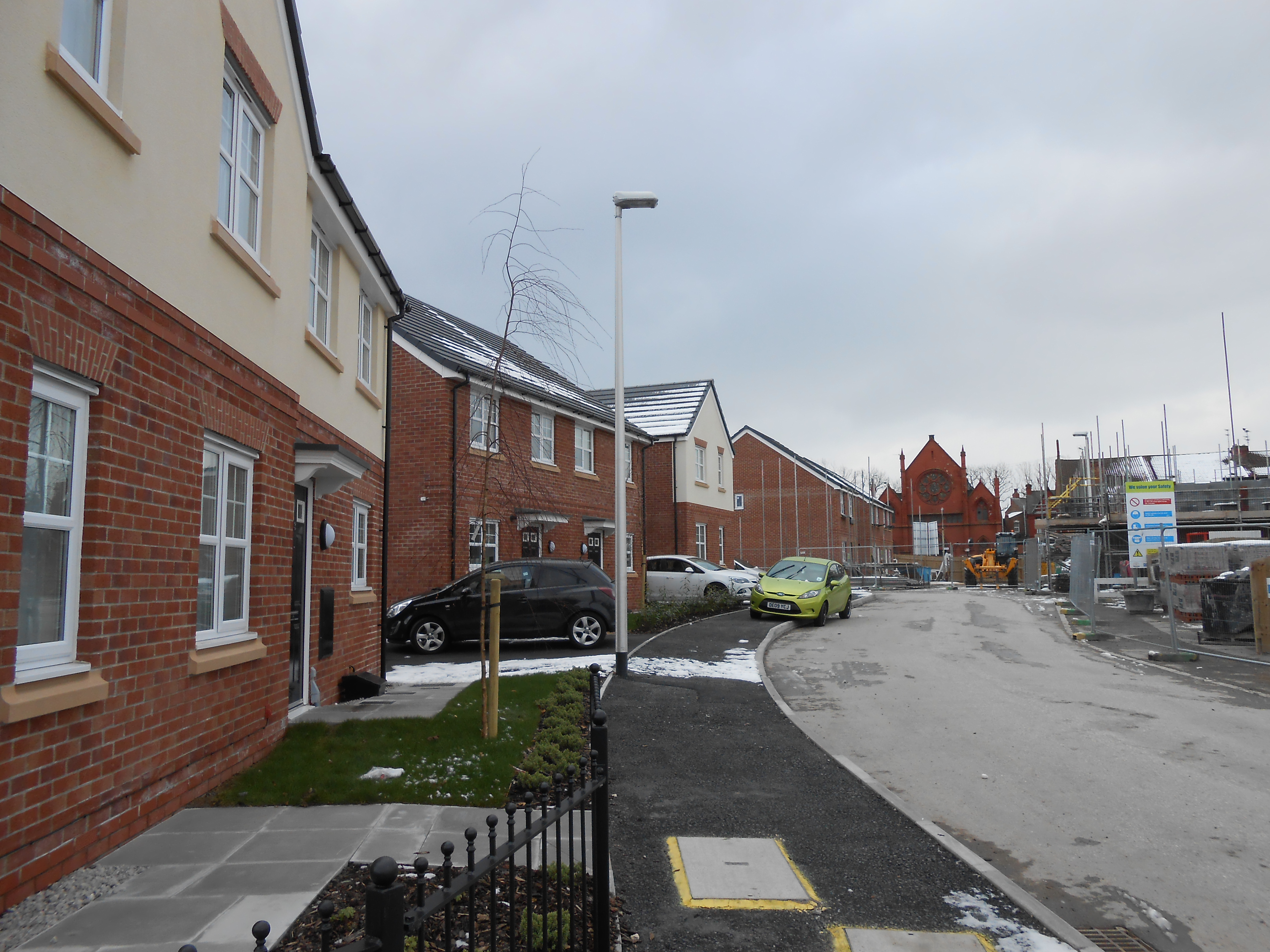 New housing development in between Brassey Street and Laird Street, Birkenhead, Merseyside, England.